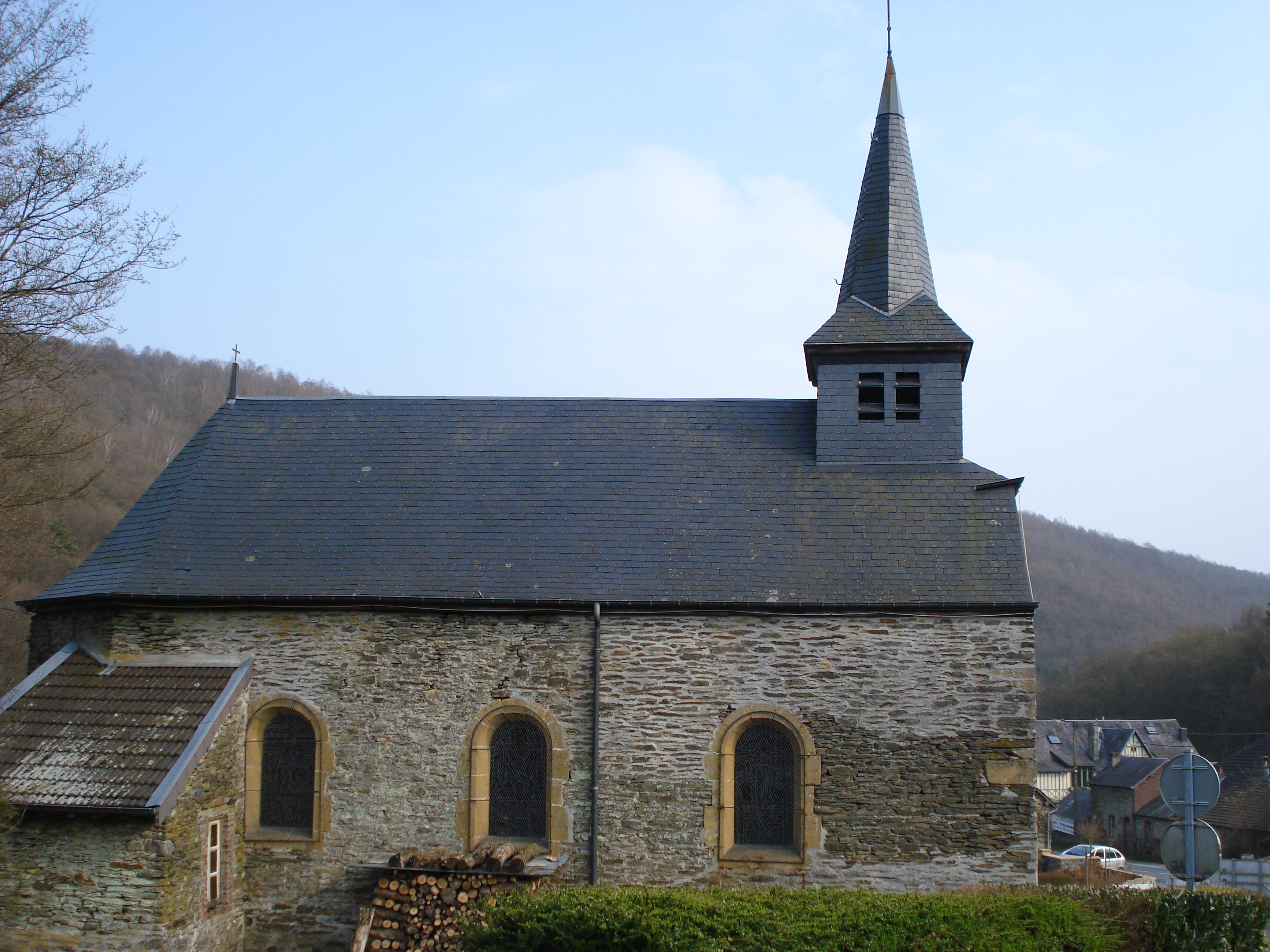 Linchamps (Ardennes) église